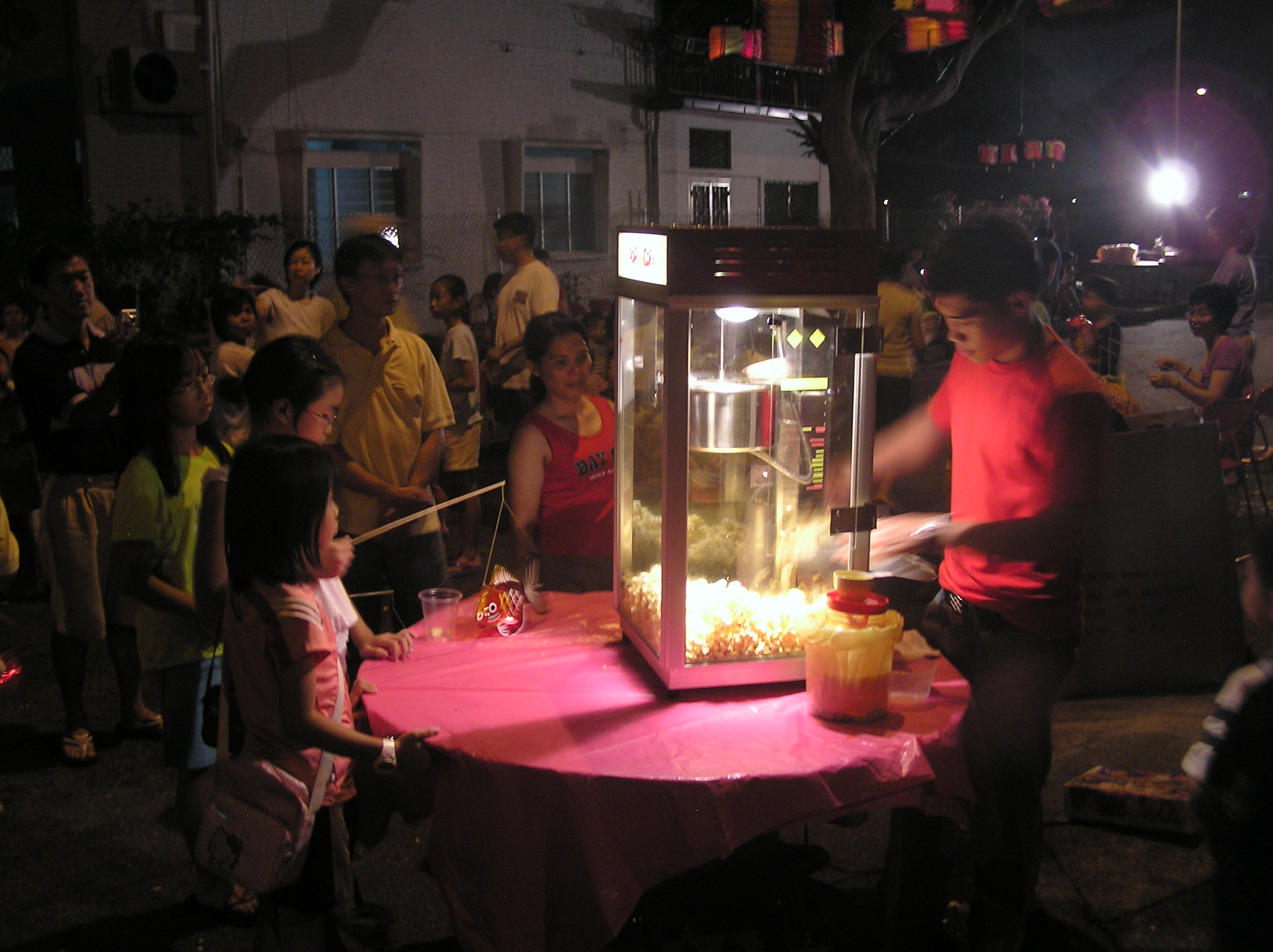 A popcorn stall at a Lantern Festival celebration organized by the Yew Lian Park Residents' Association in Bishan, Singapore.